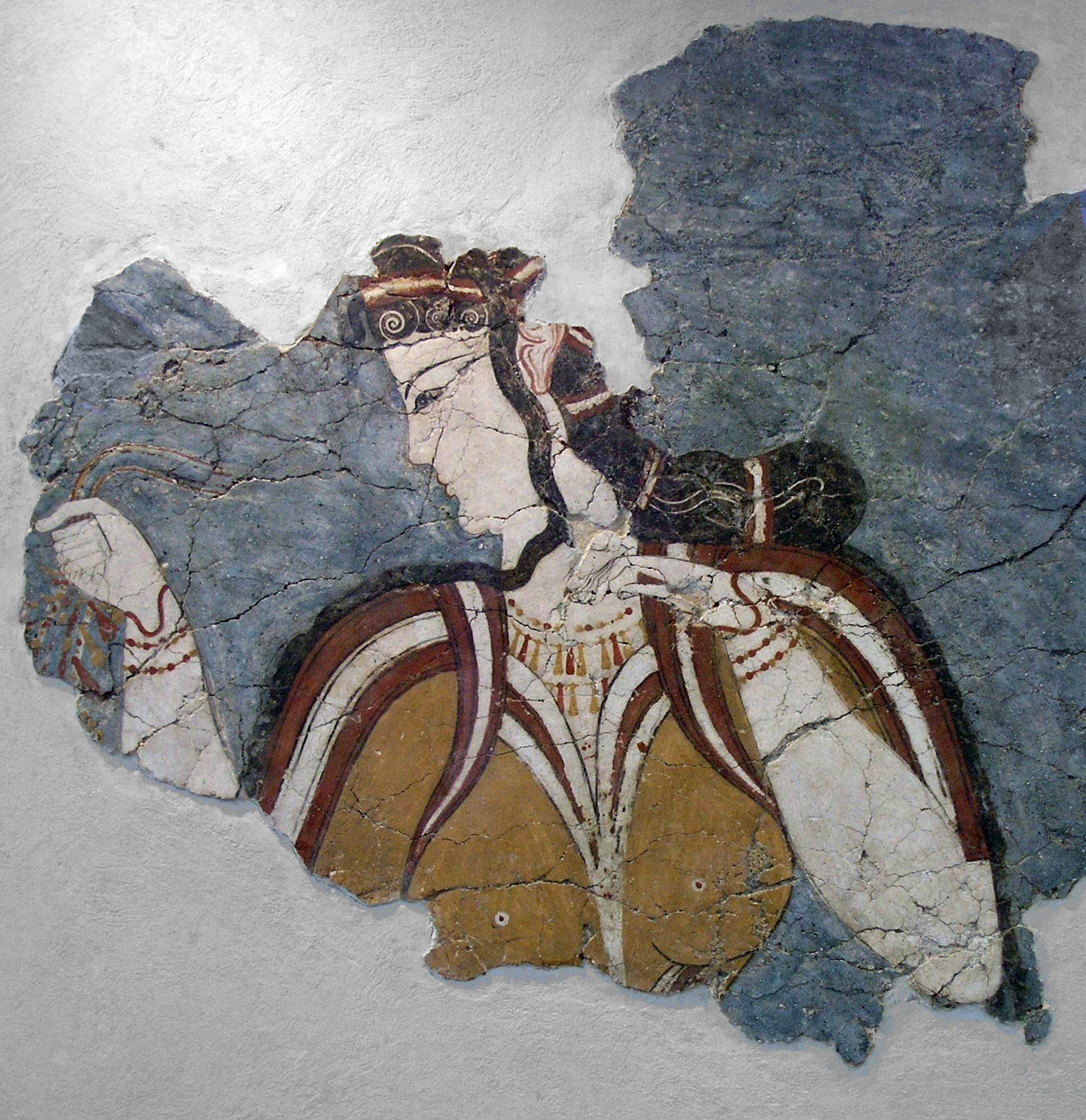 So-called "Mycenean lady". Fresco, 13th century BC. From the acropolis at Mycenae.